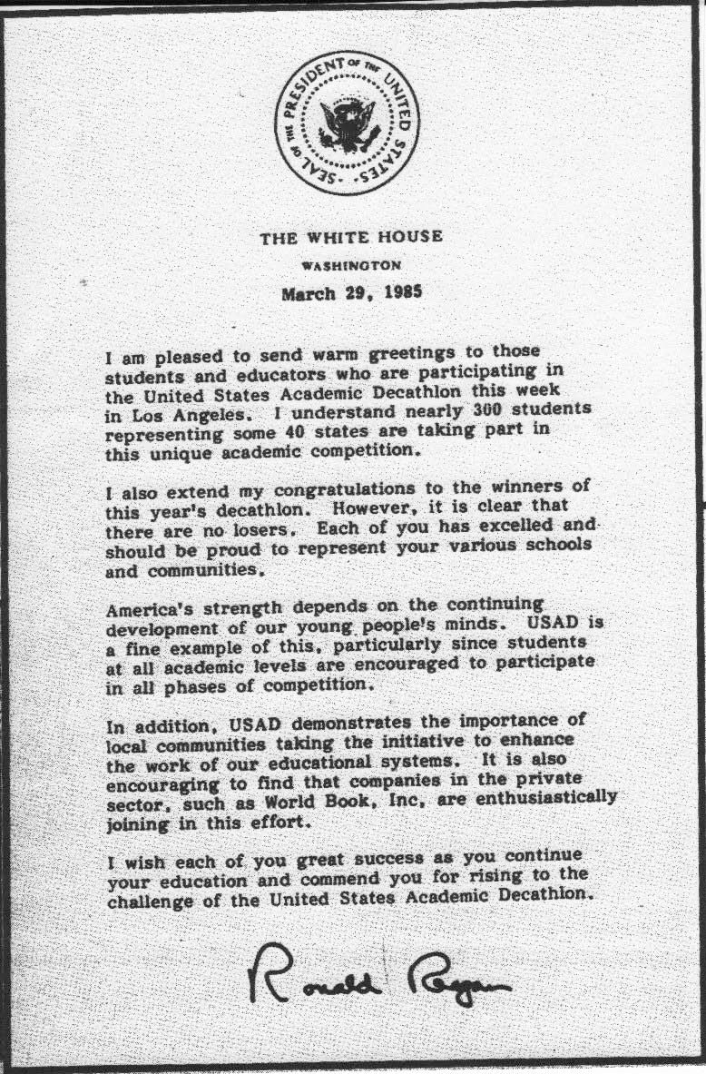 A letter from Ronald Reagan to the competitors and coaches at the 1985 United States Academic Decathlon competition.